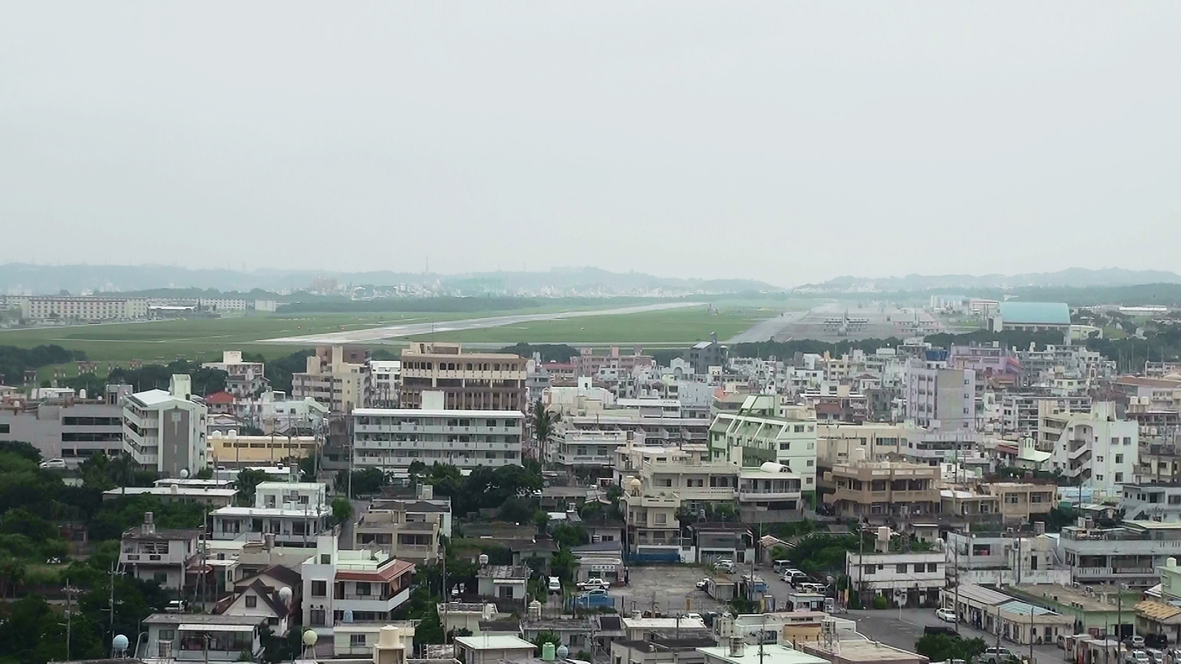 view of the Futenma airport runway from the Kakazu-hill